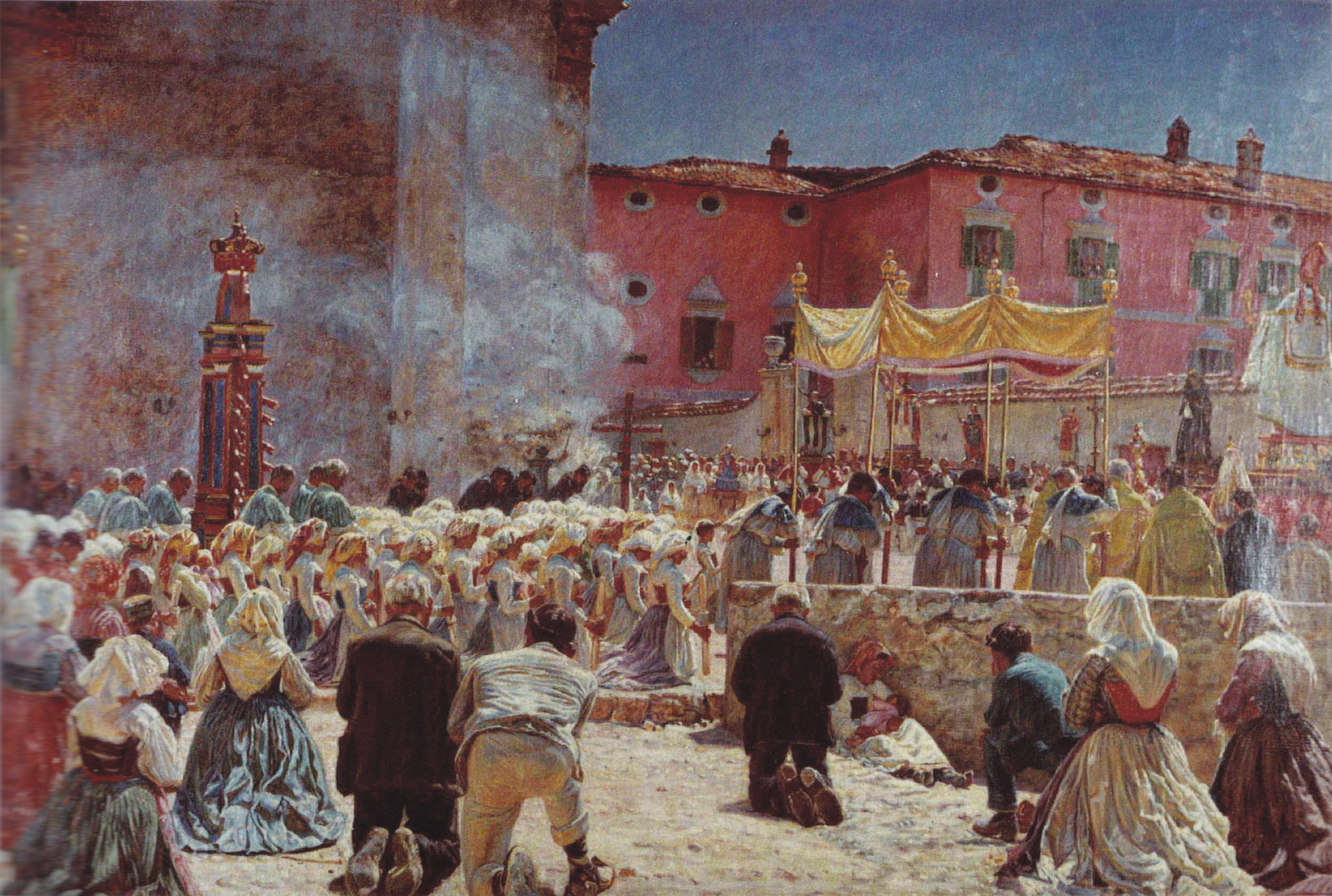 To the right is seen the red Palazzo Ferrante, which suffered gravely in the 1915 earthquake. The scan of the left edge of the painting is unfortunately a bit blurred.